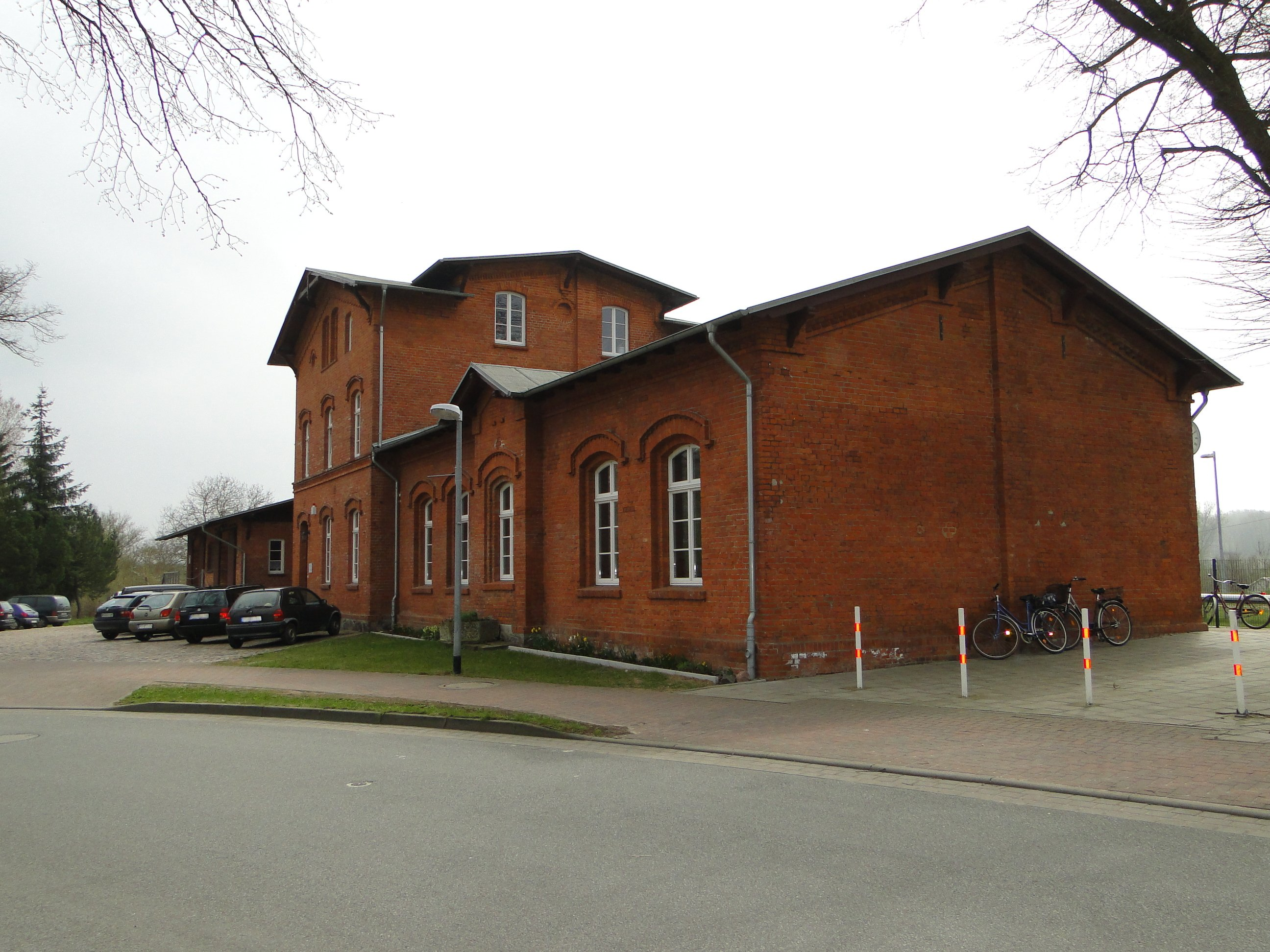 Train station (since 1998 without public transport) in Sternberg, district Ludwigslust-Parchim, Mecklenburg-Vorpommern, Germany